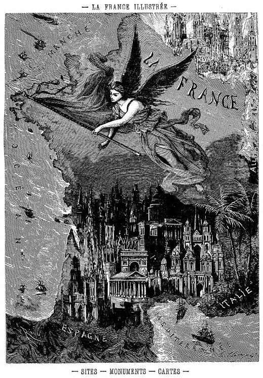 An illustration from the geographical atlas "Géographie illustrée de la France et de ses colonies" by Jules Verne drawn by Édouard Riou and Hubert de Clerget.